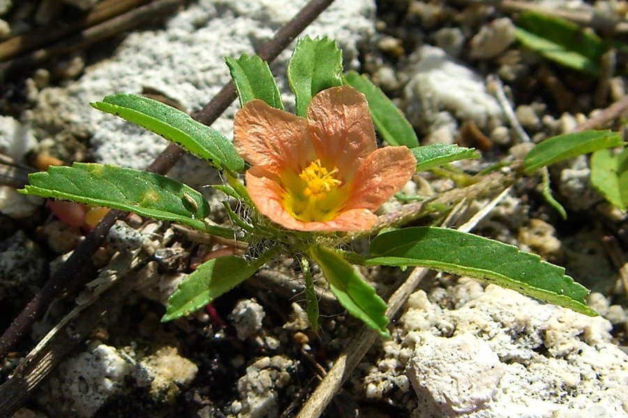 Scientific Name: Sida ciliaris L. Common Name: Fringed Fanpetals Certainty: positive (notes) Location: Florida Keys; Upper Keys; Buttonwood Bay Date: 20061227